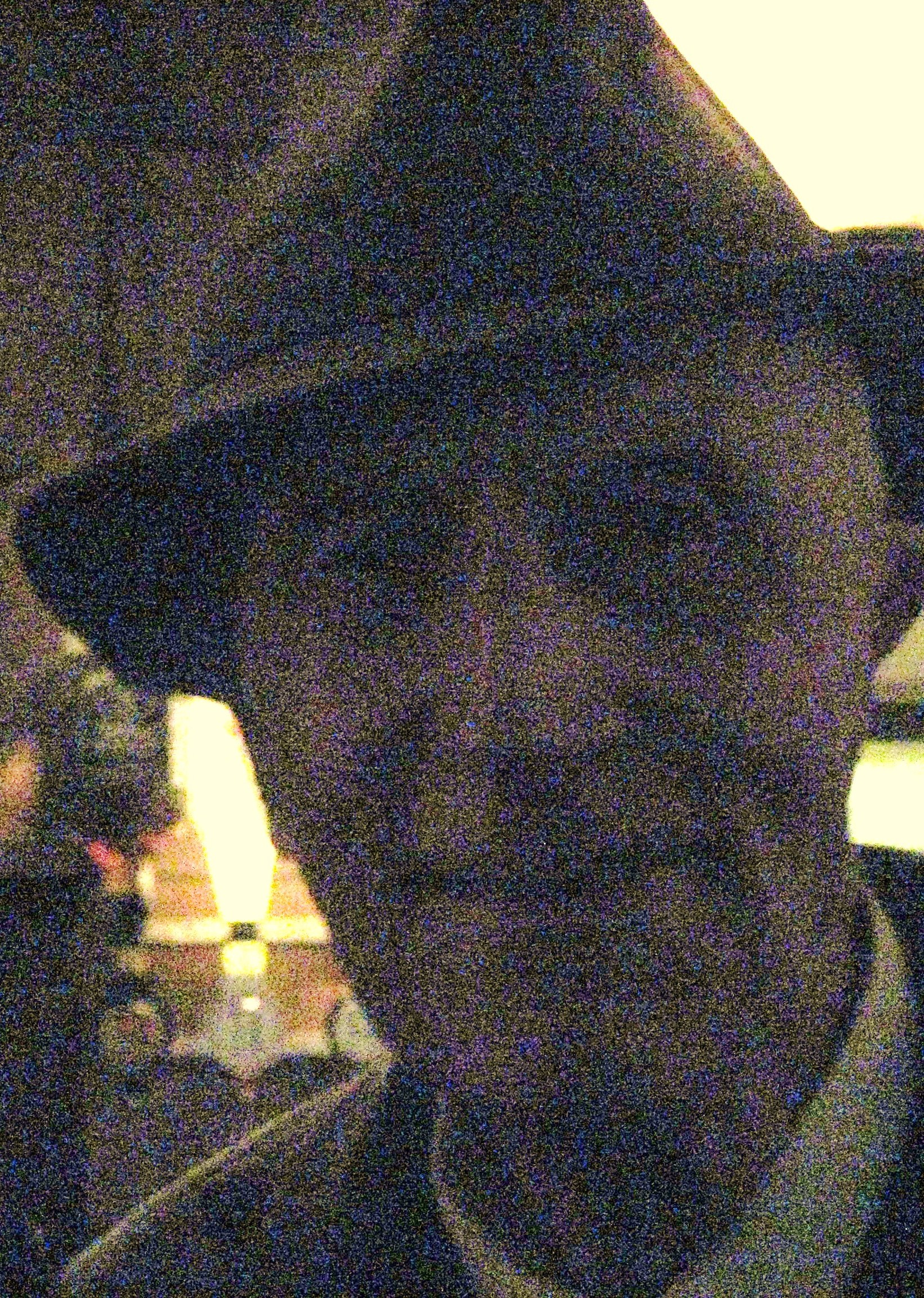 Sir Jack Leslie enjoying the local nightlife at the Squealing Pig in County Monaghan.